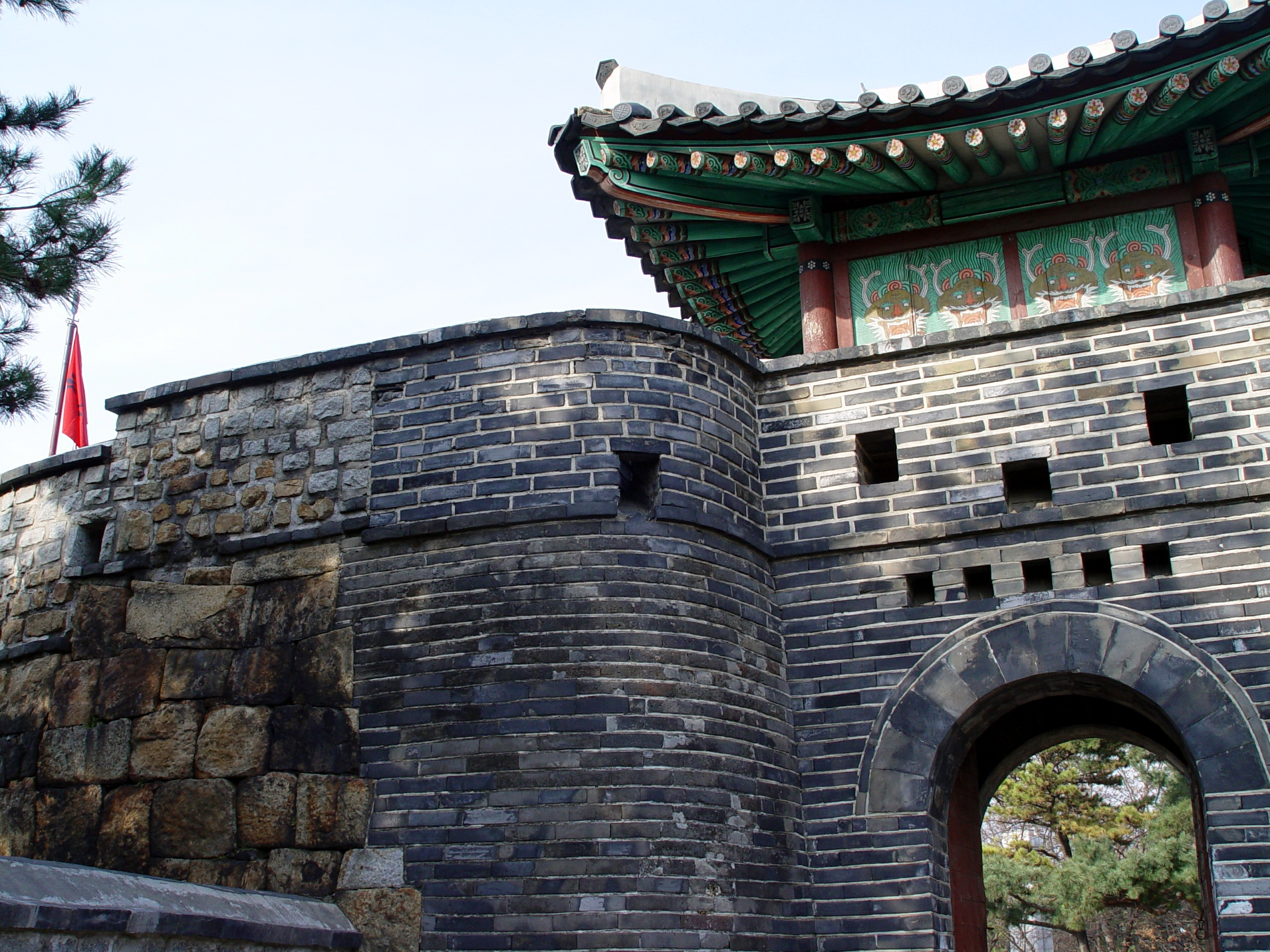 Seonamammun seen from the south-west spur of Hwaseong Fortress, Suwon, South Korea